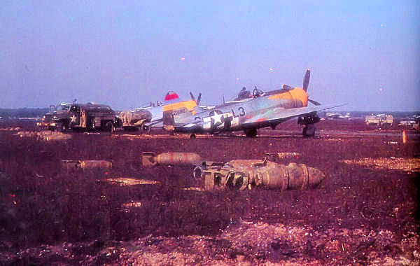 P-47D-27-RE Thunderbolt 42-6887 of the 512th Fighter Squadron, 406th Fighter Group, at RAF Ashford, England.